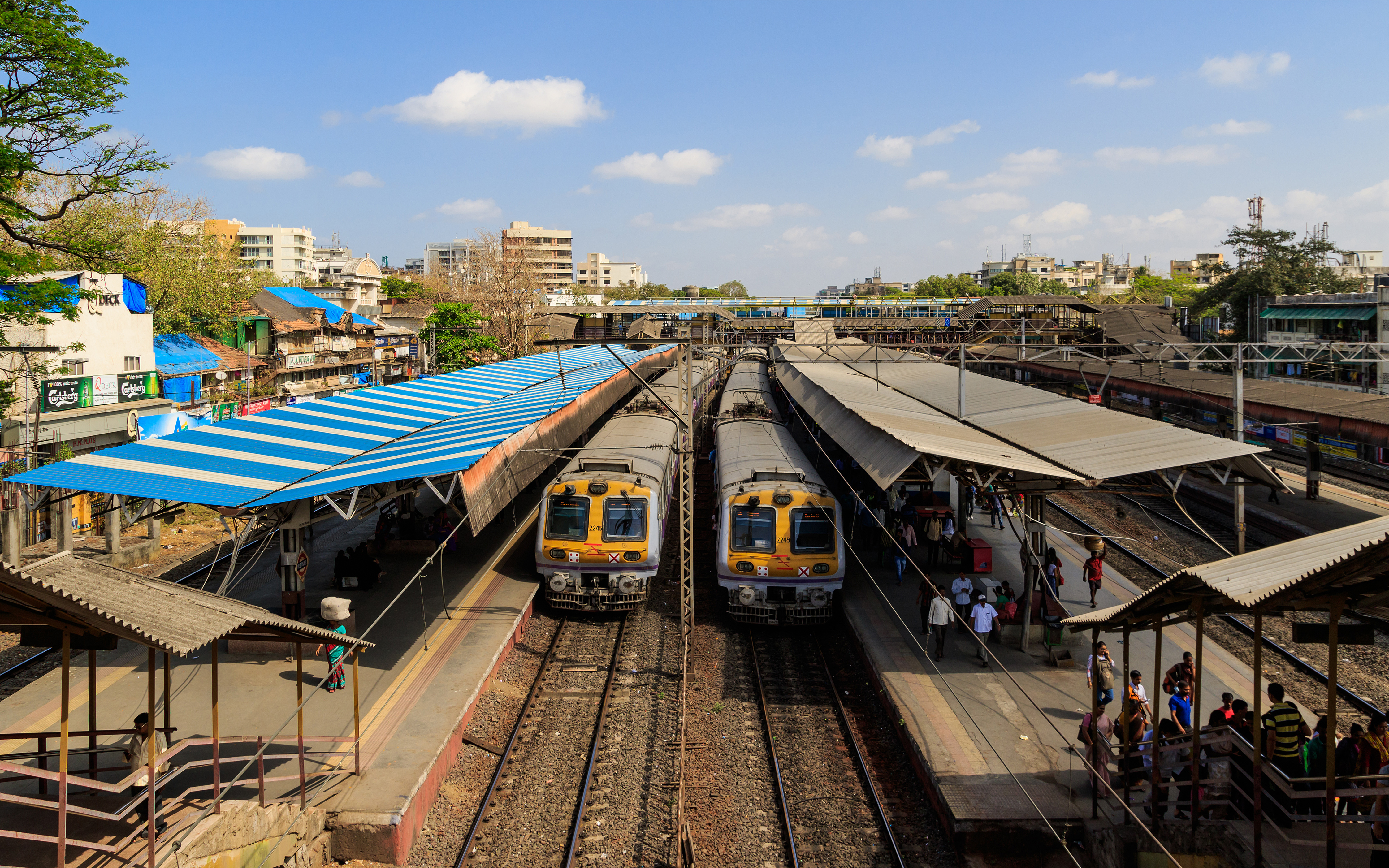 Vile Parle suburban train station in Mumbai, India